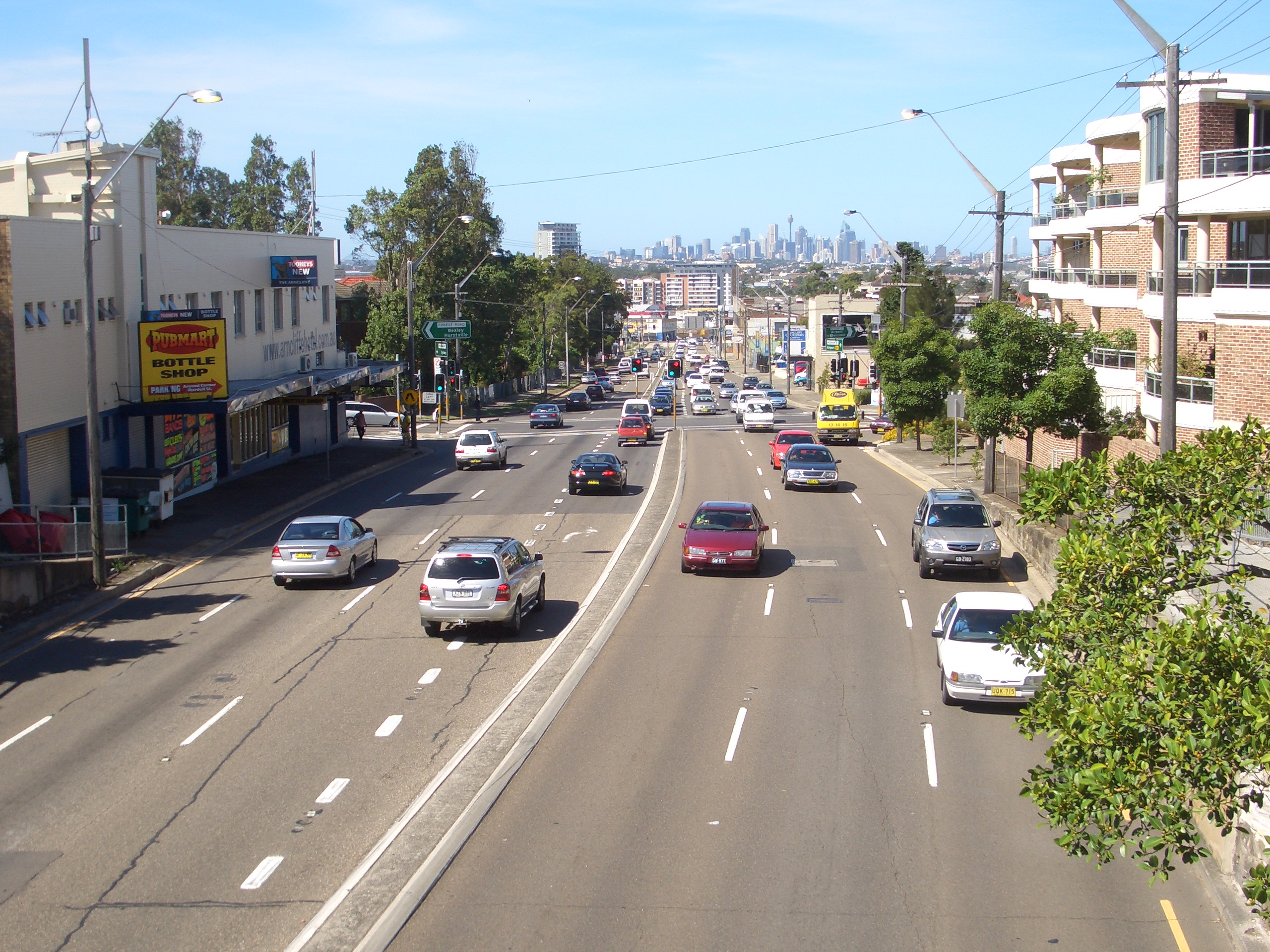 Princes Highway Arncliffe.JPG